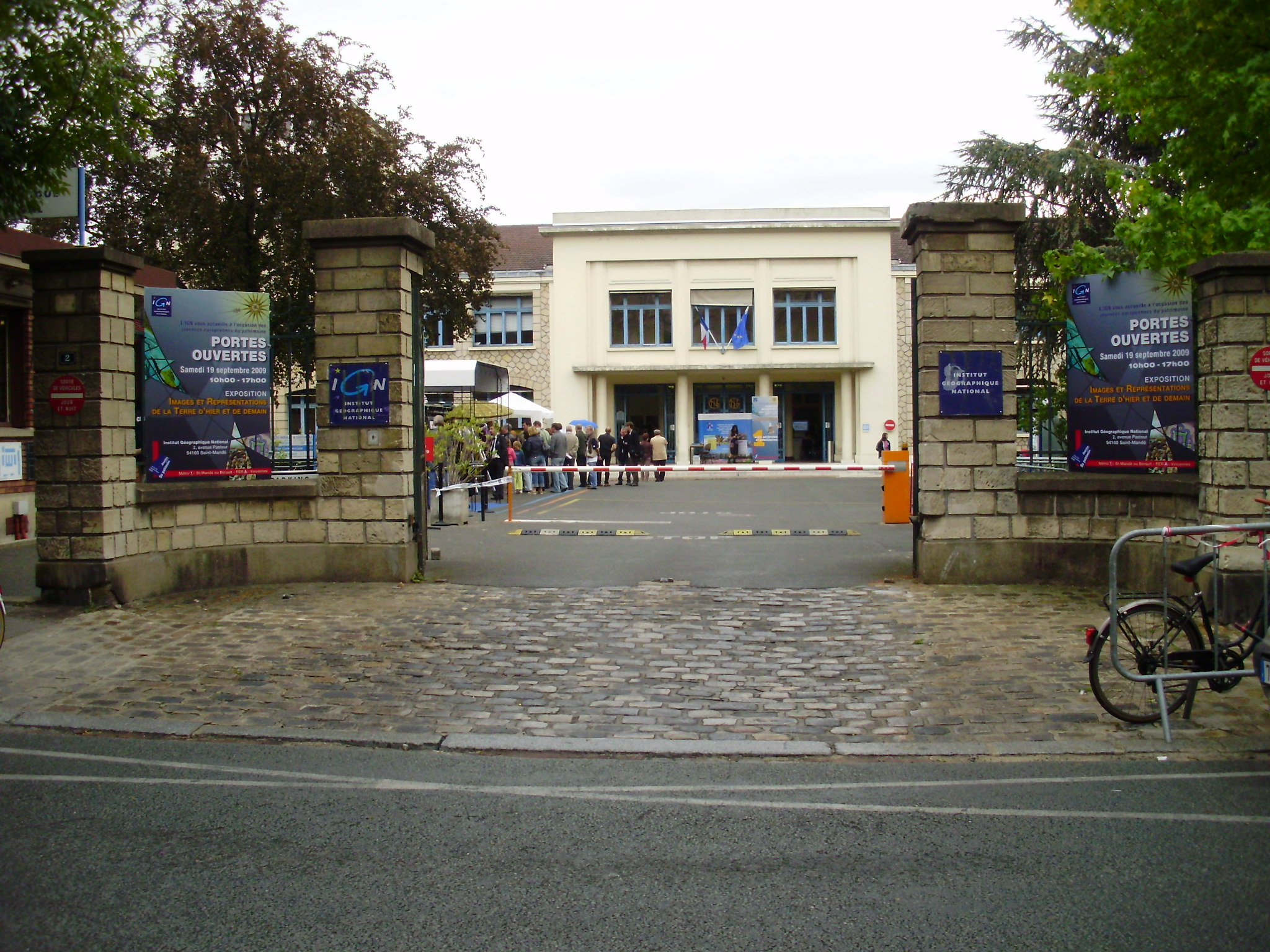 National geographical institut (France) - Saint-Mande - Entrance